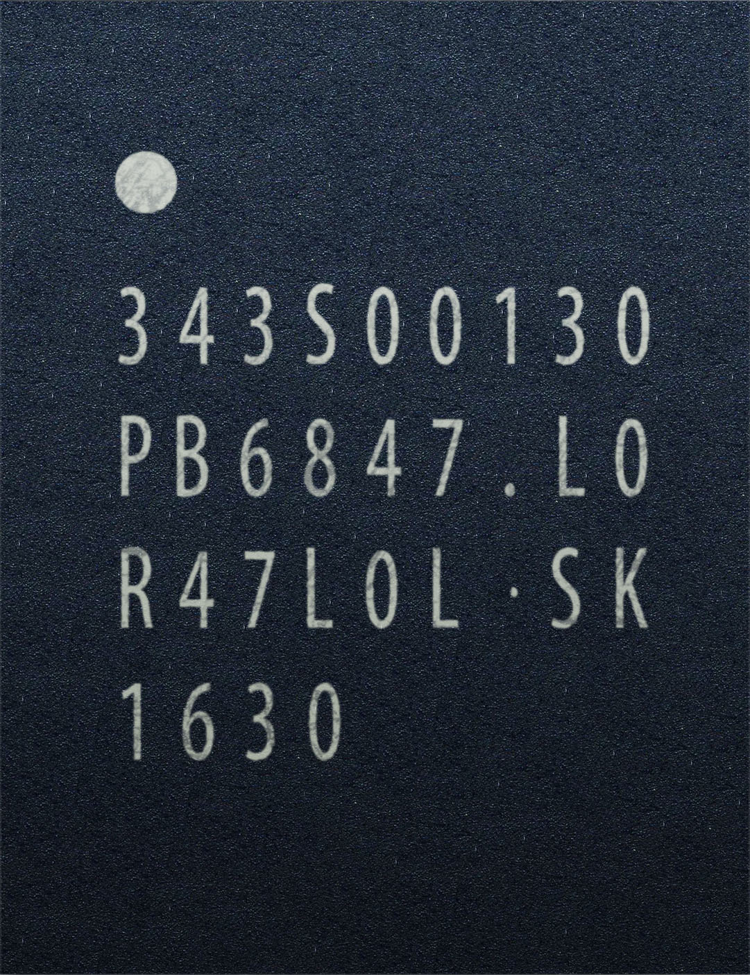 An illustration of Apple's W1 SoC controlling the AirPods. Inspiration for this picture comes from TechInsights teardown of the AirPods.